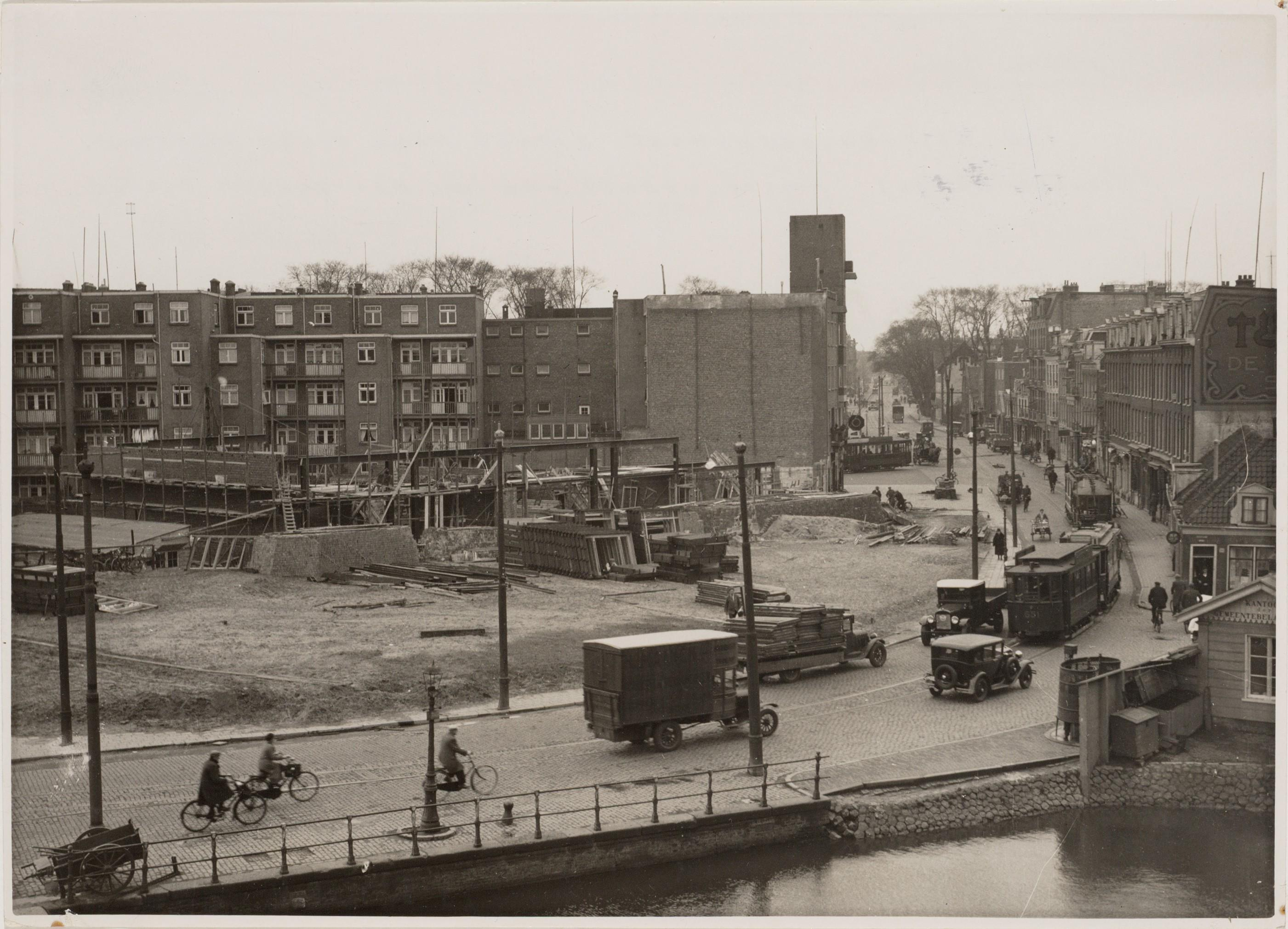 Amstelveenseweg na sloop van huizen van de Dubbele Buurt gezien vanaf de Sloterkade met op de achtergrond links de huizen aan de Zocherstraat en op de voorgrond de Kostverlorenvaart. Tram van lijn 1 (bijwagen 651) rijdt richting Hoofddorpplein.